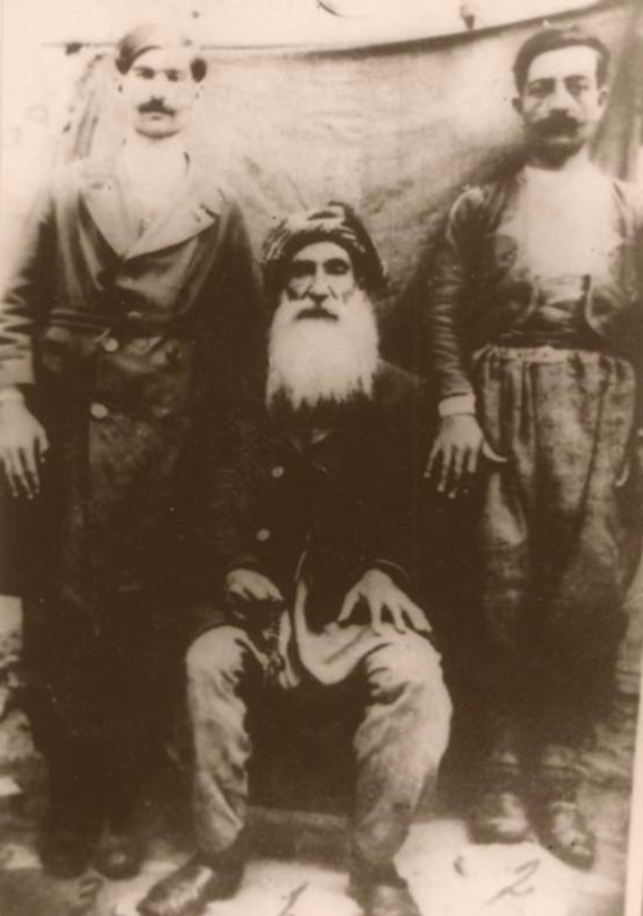 Seyid Rıza with his son and son-in-law Kurdî: Seyîd Riza, ligel law û zavayê xwe (1937)